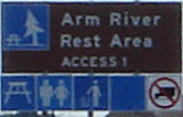 Arm River Rest Area Access 1 Road Sign. A rest area is usually located in a clump of trees and will generally have picnic tables, rest room or outhouse facilities, trash bins and parking area to provide a resting spot for highway travellers wishing to rest. Sometimes the rest area site will feature a scenic view or historic marker. Photo taken from Saskatchewan Highway 11, Louis Riel Trail travelling south from Saskatoon to Regina